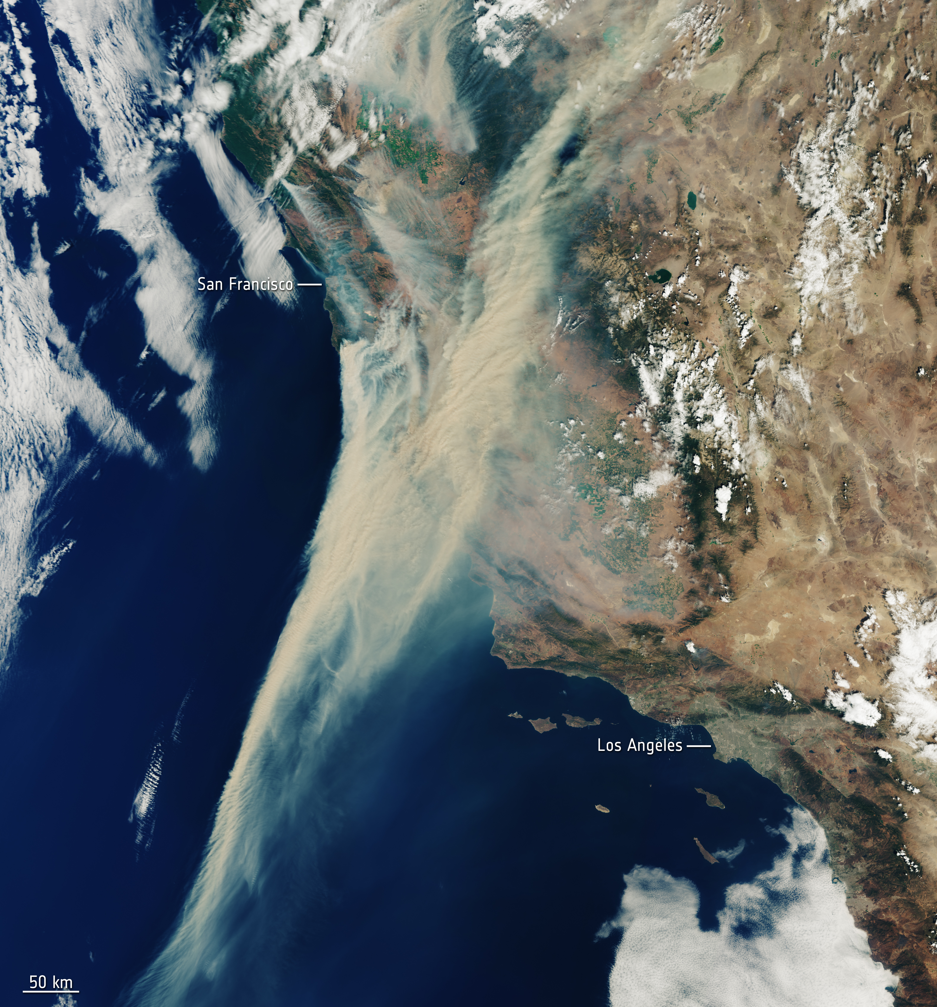 Captured on 19 August 2020, this Copernicus Sentinel-3 image shows the extent of the smoke from fires currently ablaze in California, US. Amid the blistering heatwave, which is in its second week, there are around 40 separate wildfires across the state. Record high temperatures, strong winds and thunderstorms have created the dangerous conditions that have allowed fires to ignite and spread. The fires are so extreme in regions around the San Francisco Bay Area that thousands of people have been ordered to evacuate.